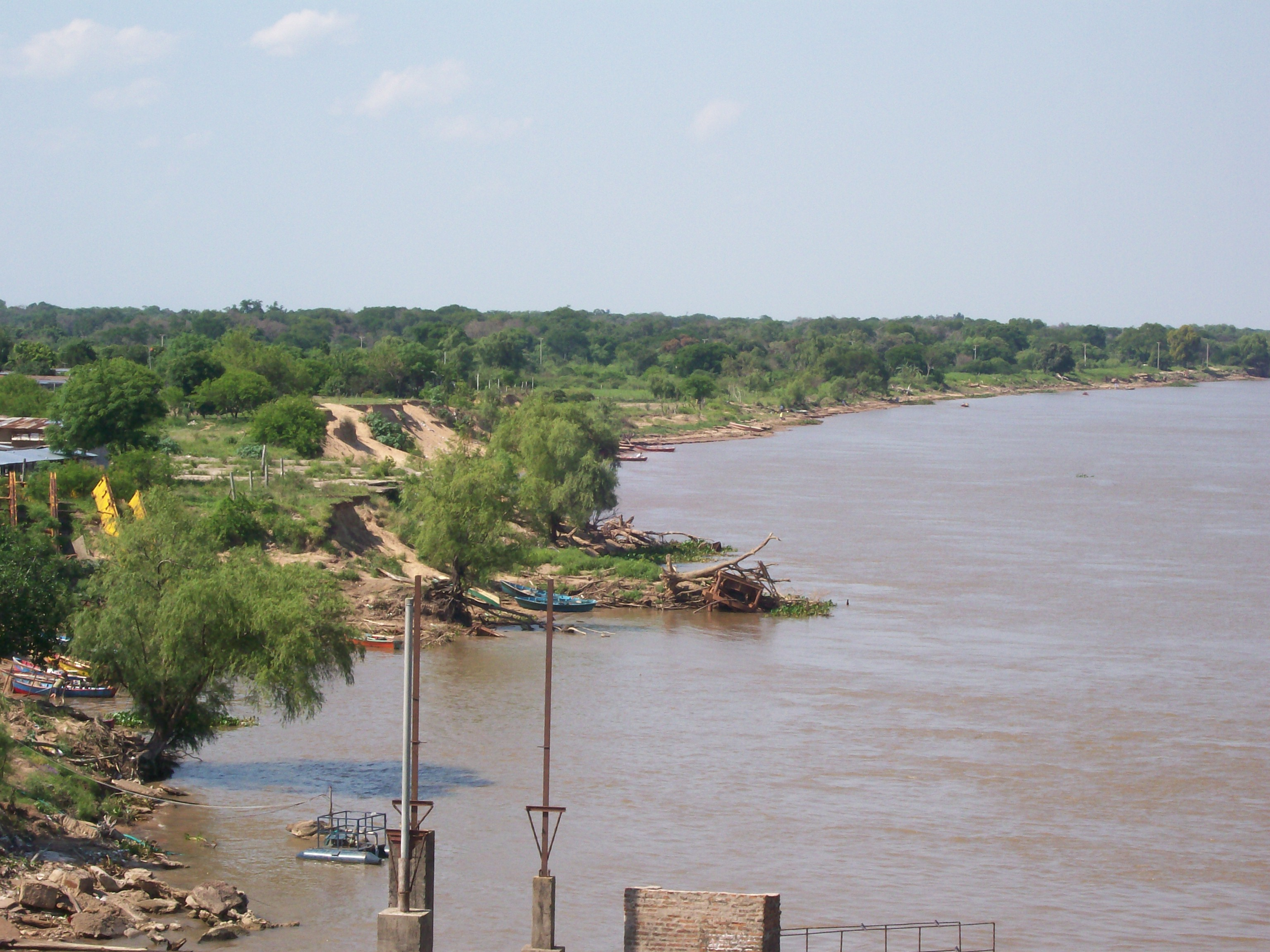 Coastline of Paraná River over Barrio San Pedro Pescador (Chaco Province, Argentina), in front of Corrientes City. Photo is taken from General Manuel Belgrano Bridge. It can be appreciated fishermen boats, subtropical forest, and very short rise in the coast made by Paraná River sediments, typical of right margin of this river.